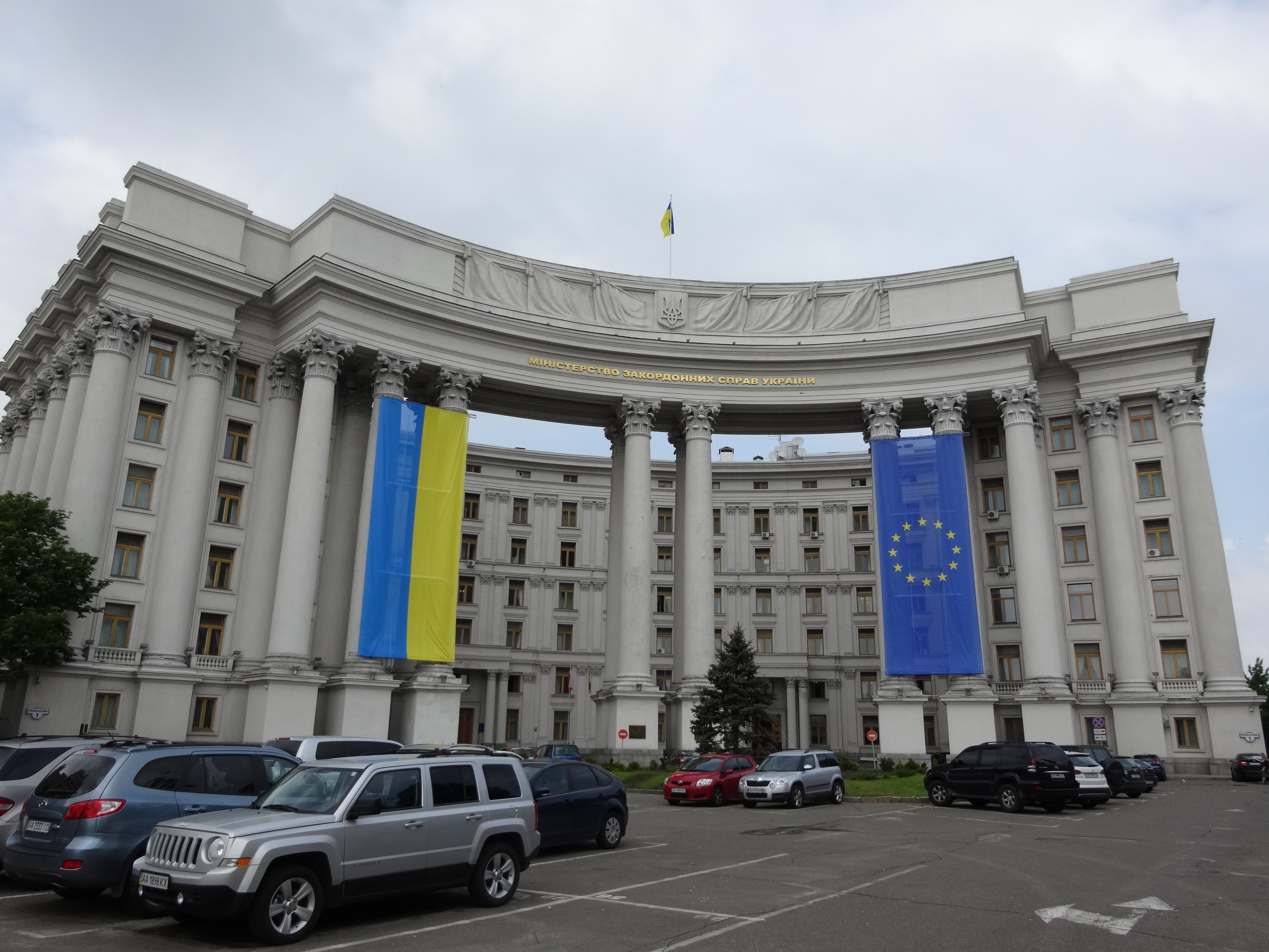 Ukraine ministry of foreign affairs – with EU flagging